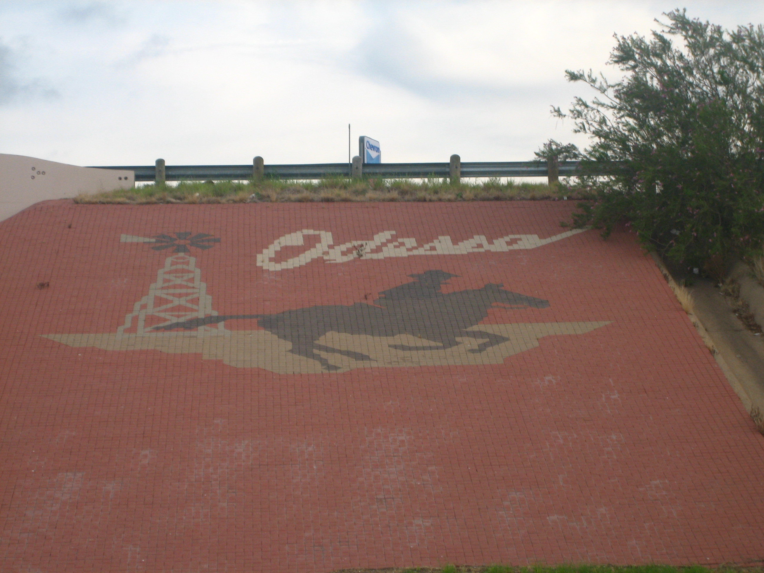 I took photo on July 10, 2009.